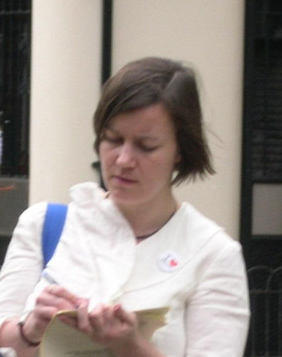 headshot of Meg Hillier, cropped from Image:Meg Hillier.jpg